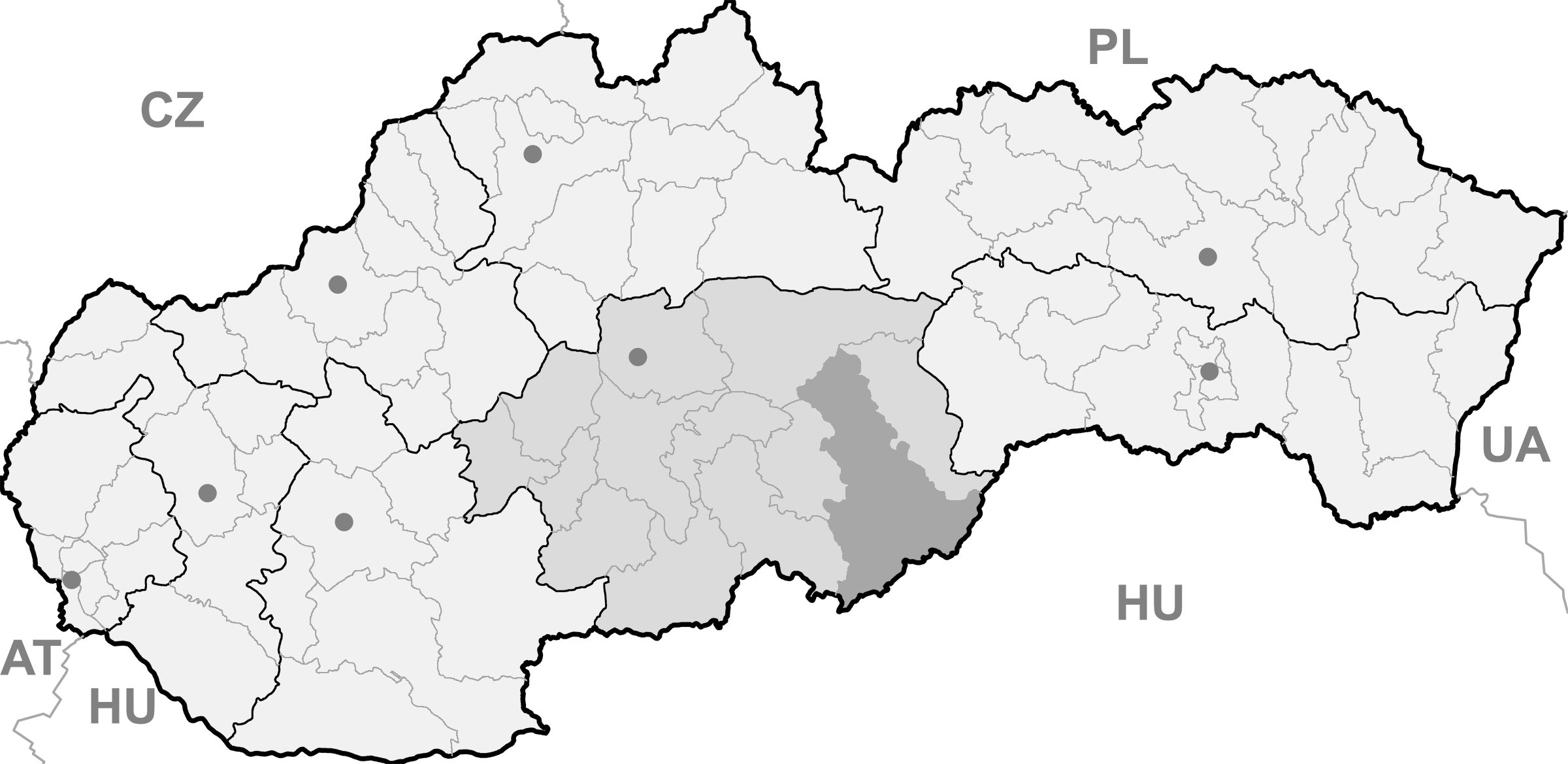 Map of Slovakia, Rimavská Sobota district and Banská Bystrica region highlighted